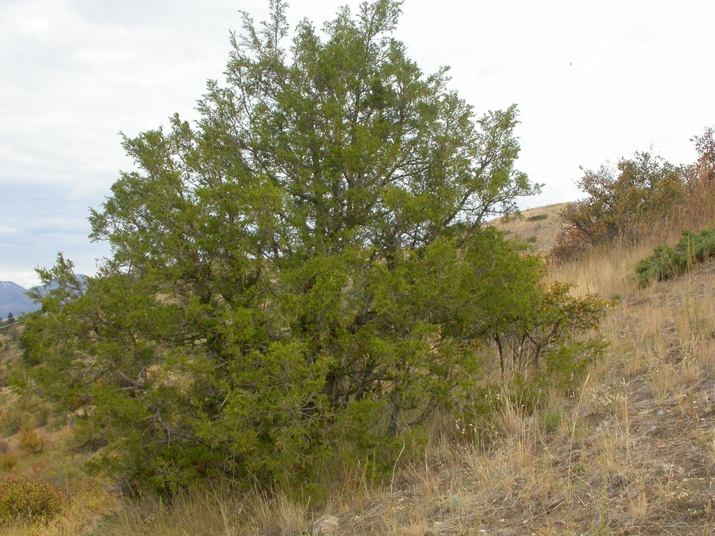 Rocky Mountain Juniper Juniperus scopulorum trees are common right along the ridge in the upper elevation portion of Burke Park, Montana.